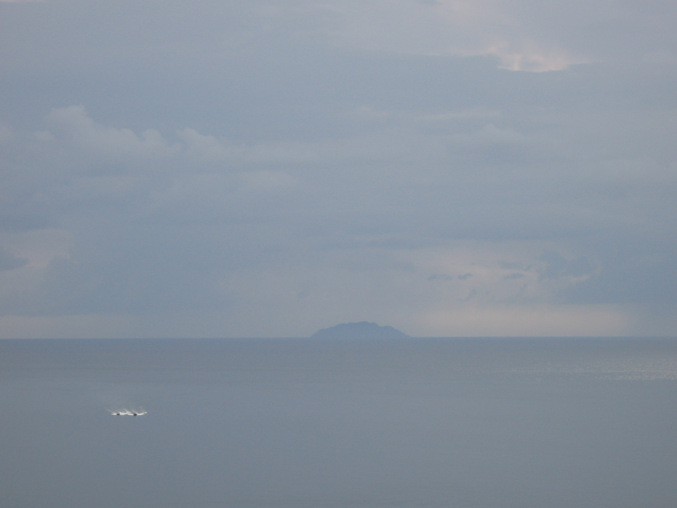 Photo of Desecheo Island from a PR-2 look out point in Aguadilla, Puerto Rico.